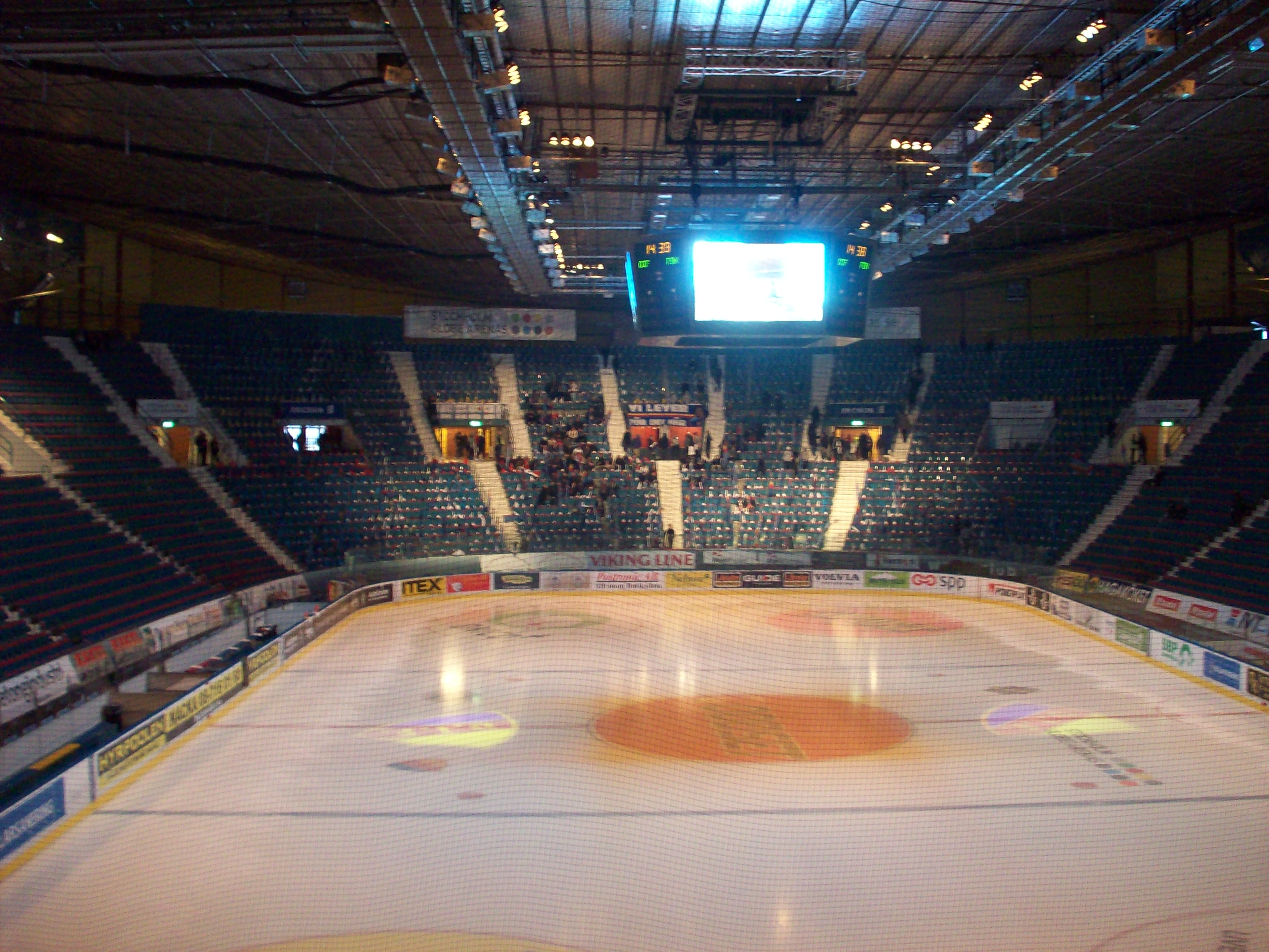 Hovet seen from the VIP stand